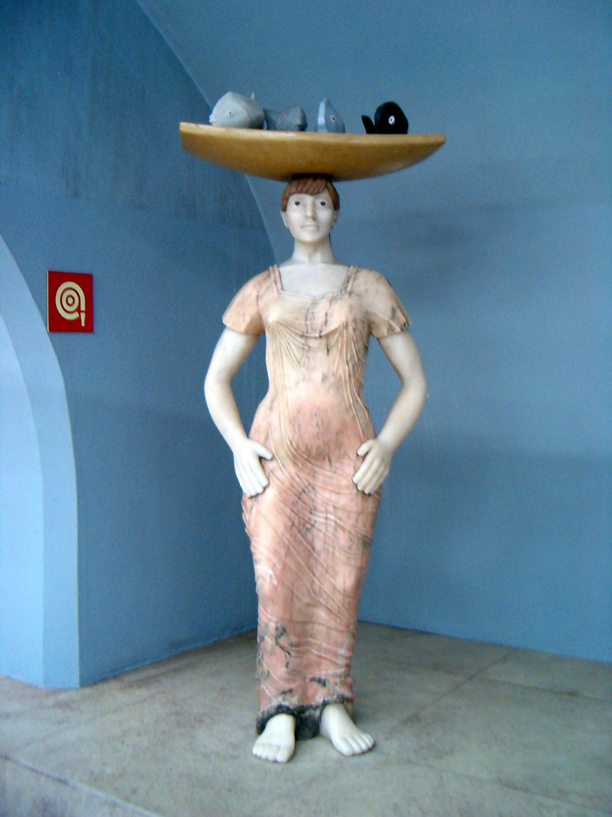 Metro station Campo Pequeno (Lisboa)